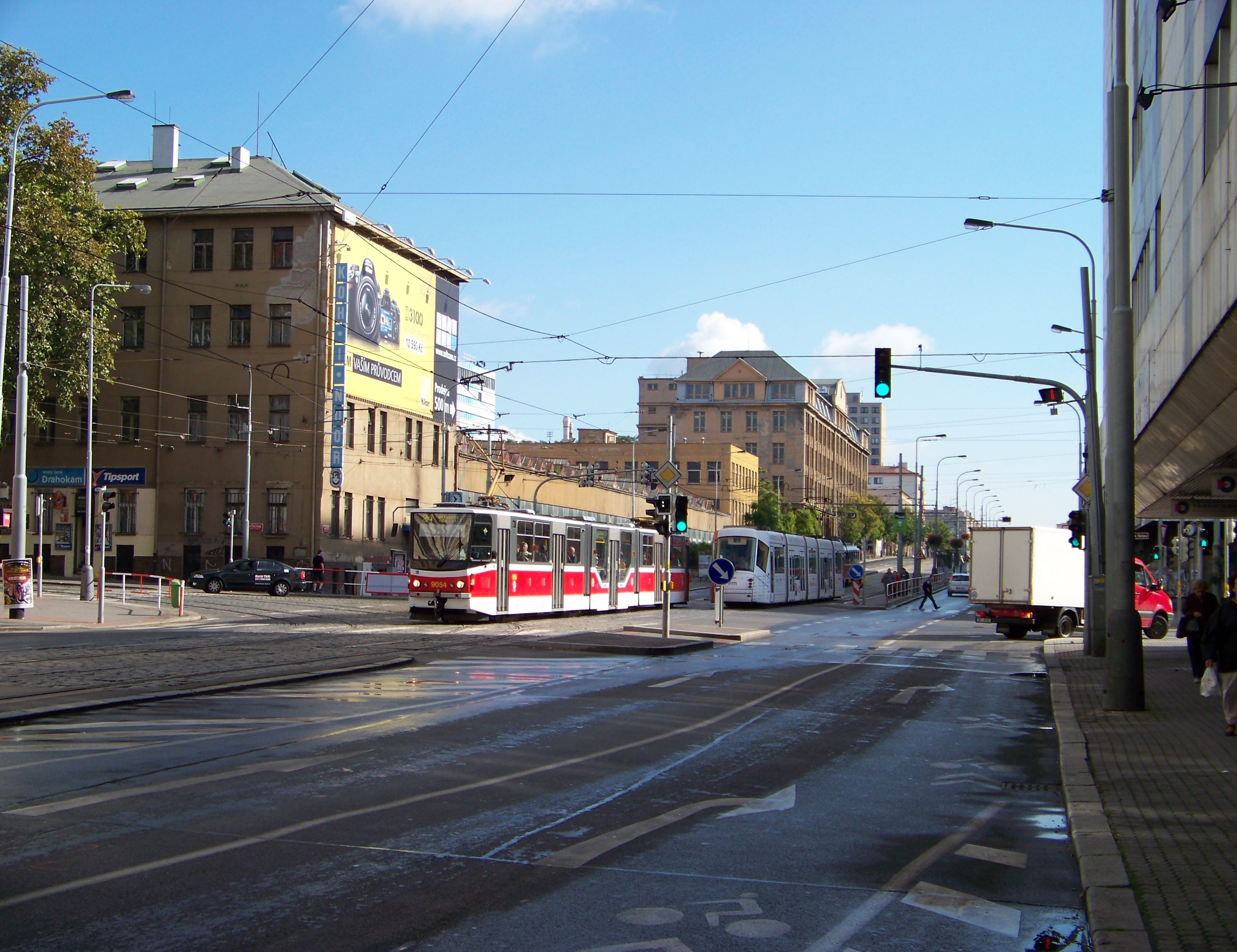 Prague-Vršovice, the Czech Republic. Vršovická 478/51, Koh-i-noor.